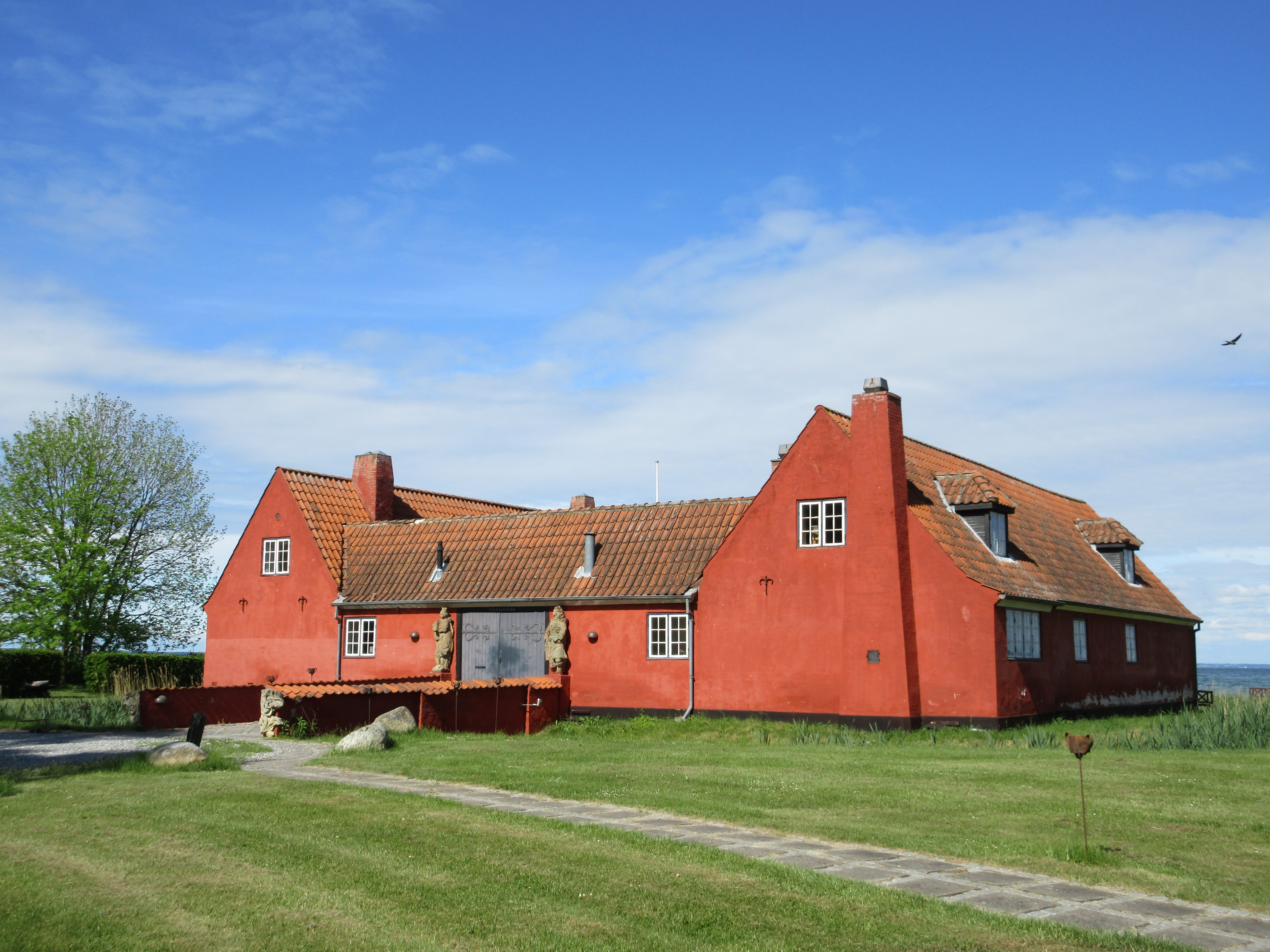 Mikkelgård in Mikkelborg Strandpark in Hørsholm, Denmark